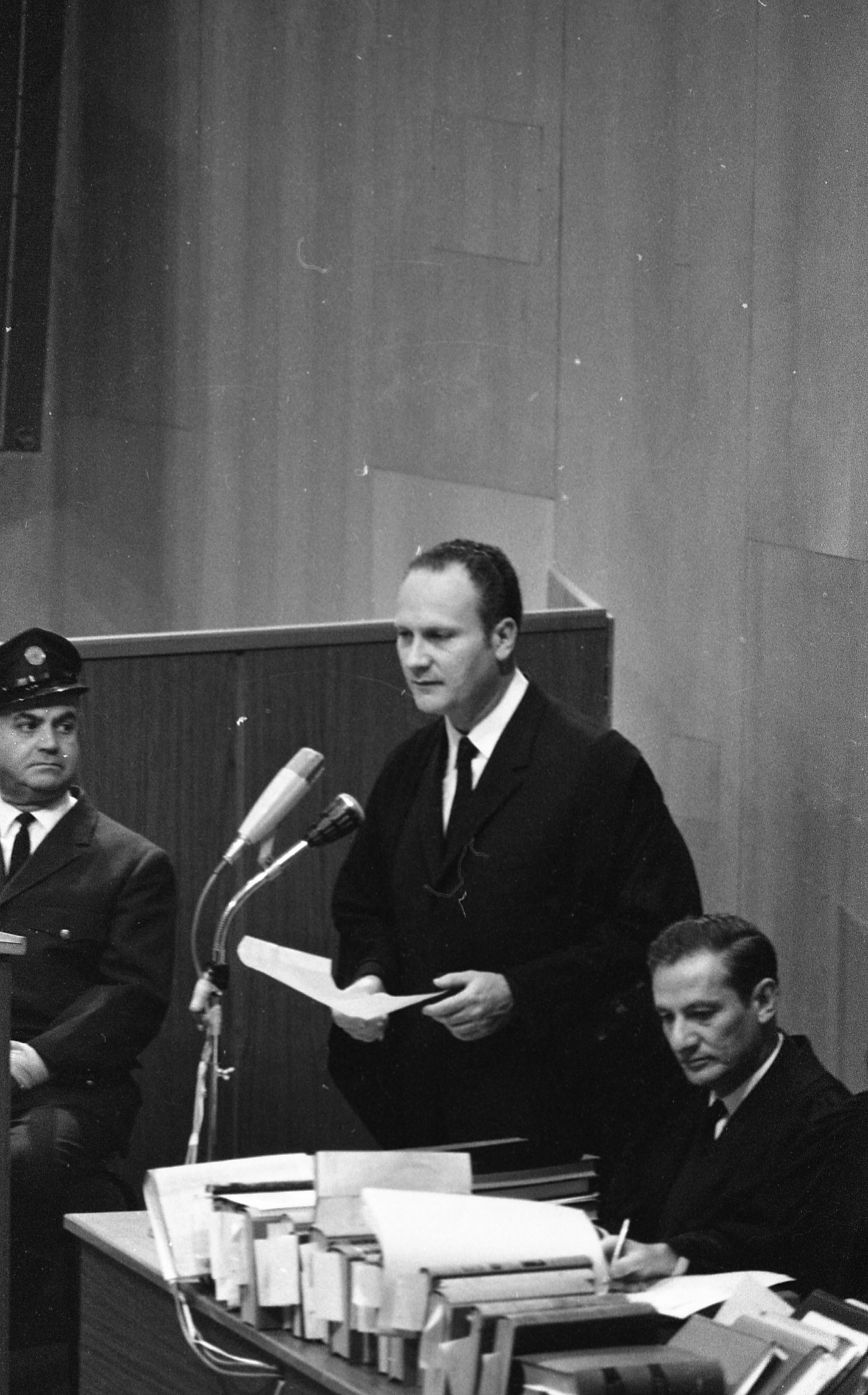 Denis Michael Rohan trial.